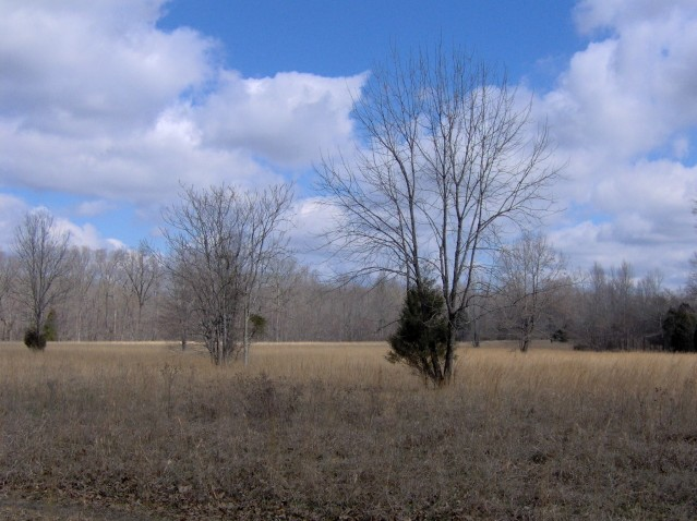 The interior of the Old Stone Fort near Manchester, Tennessee, in the Southeastern United States. Excavations conducted in 1966 by the University of Tennessee turned virtually no ancient artifacts within the enclosure, lending evidence to the theory that the structure had a ceremonial function, rather than a martial one. The Old Stone Fort was built nearly 2000 years ago by local Middle Woodland cultures, and is now part of a state park.